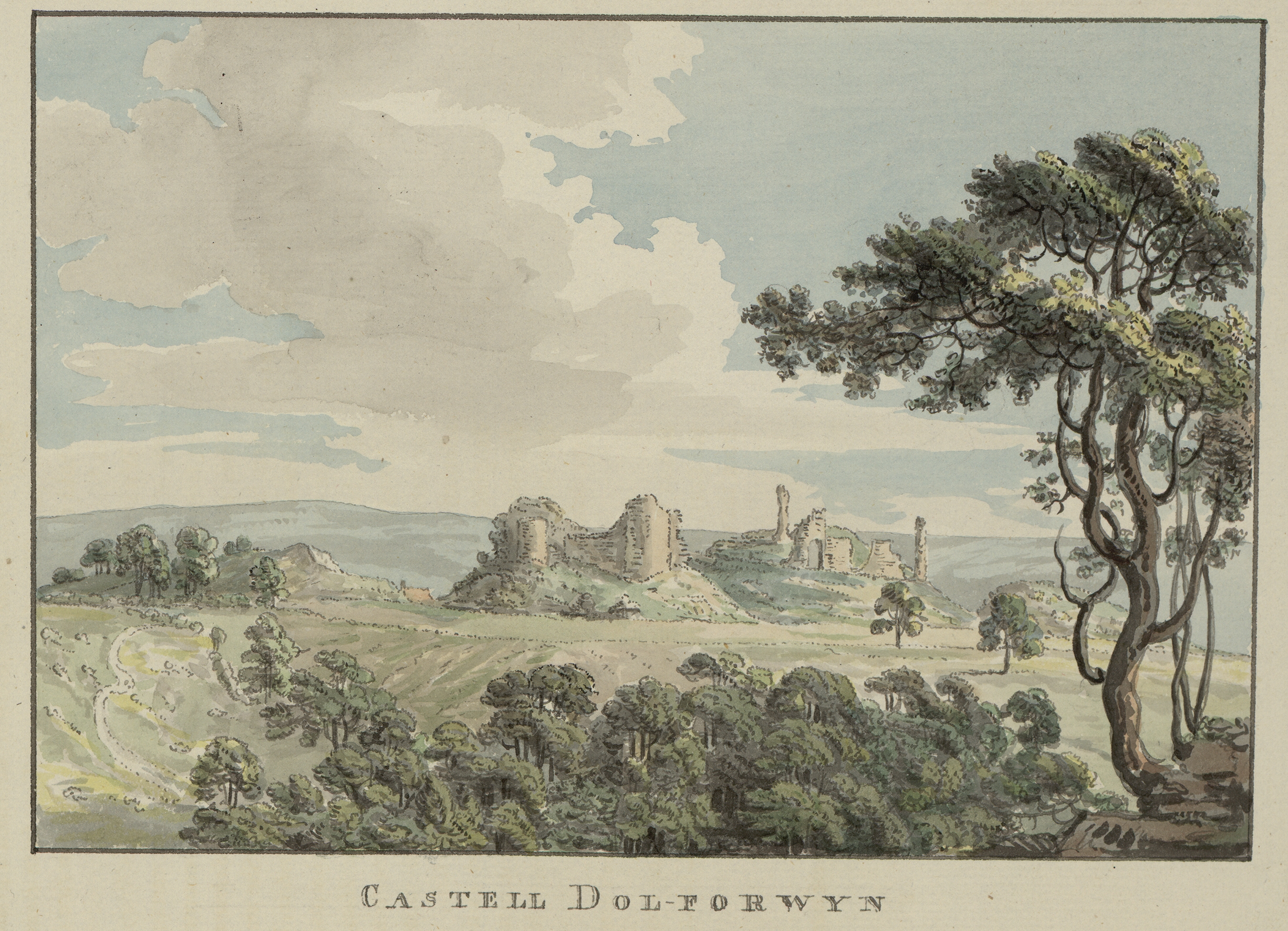 An image from a set of 8 extra-illustrated volumes of A tour in Wales by Thomas Pennant (1726-1798) that chronicle the three journeys he made through Wales between 1773 and 1776. These volumes are unique because they were compiled for Pennant's own library at Downing. This edition was produced in 1781. The volumes include a number of original drawings by Moses Griffiths, Ingleby and other well known artists of the period. Thomas Pennant (1726-1798)